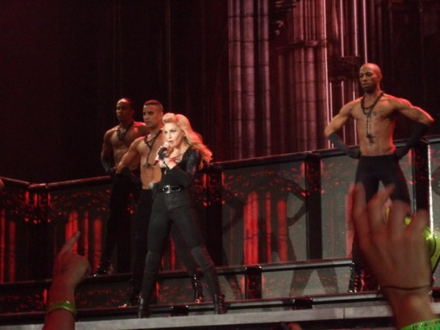 Madonna Concert in Barcelona